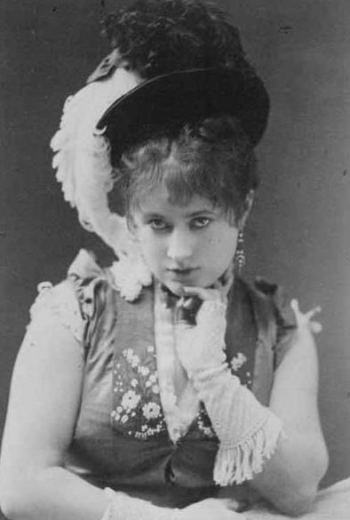 Photo of English Actress Alice Dunning Lingard circa 1880.